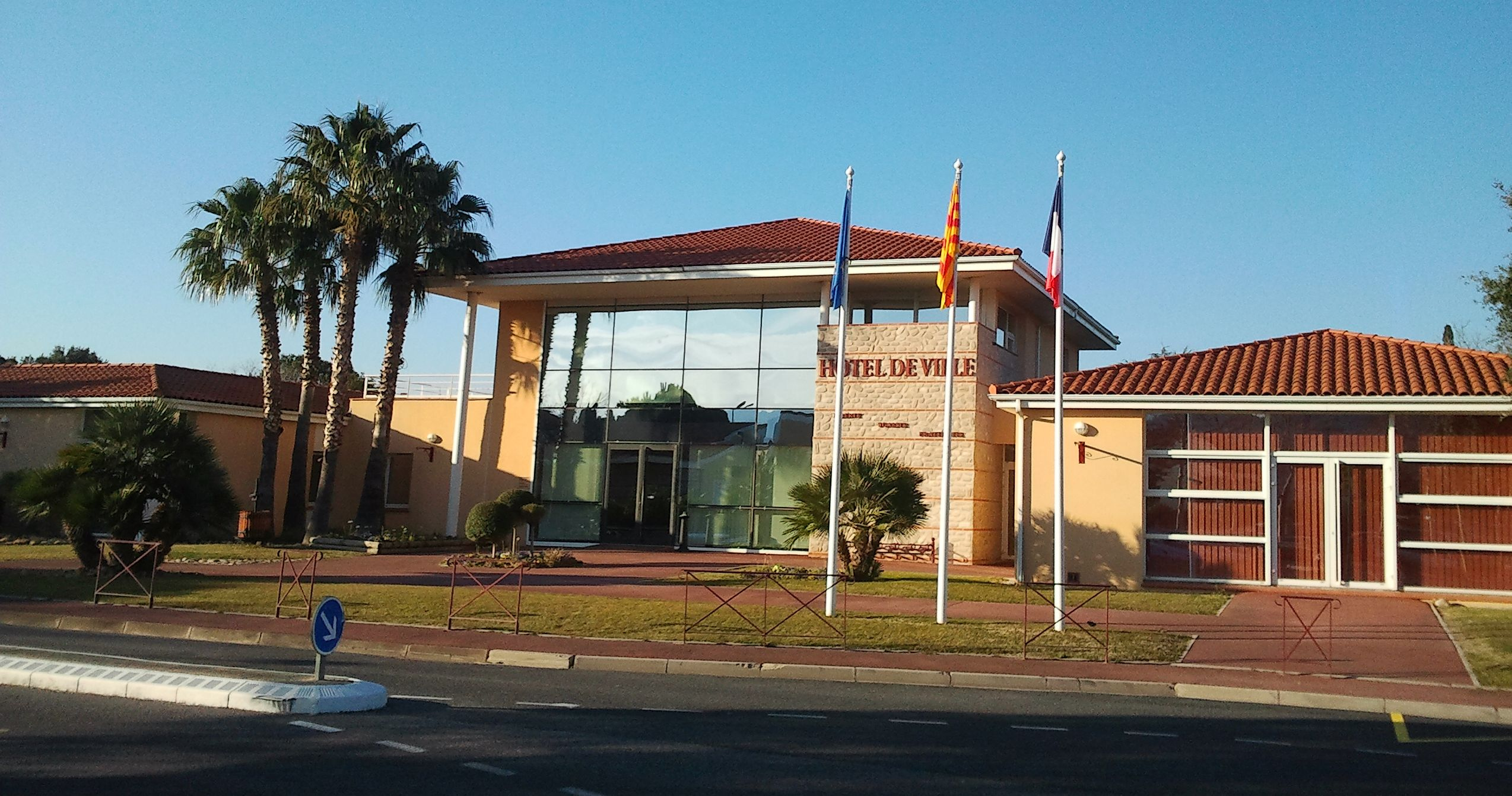 Town hall of Le Boulou